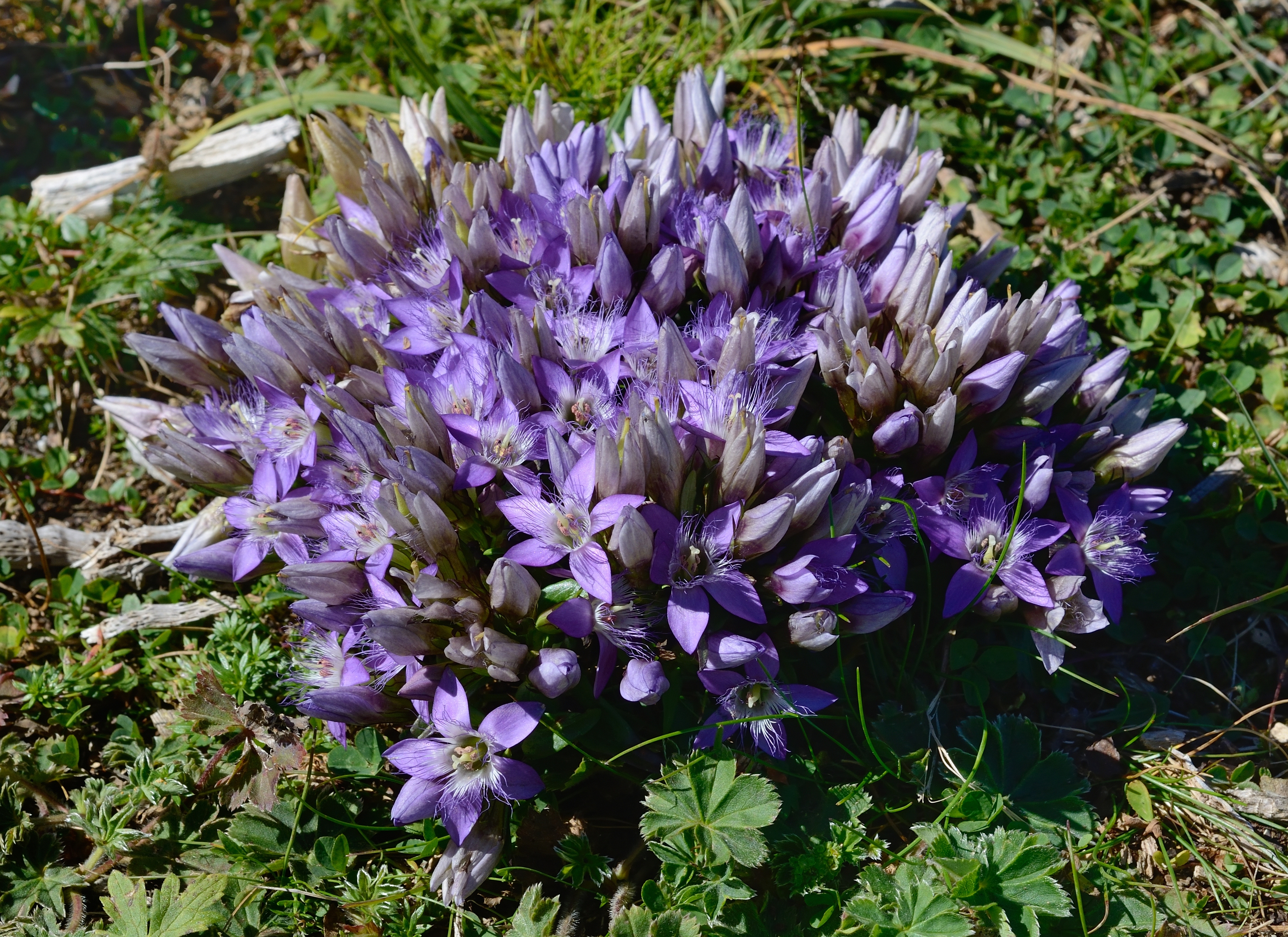 Gentianella austriaca, Raxalpe, Lower Austria